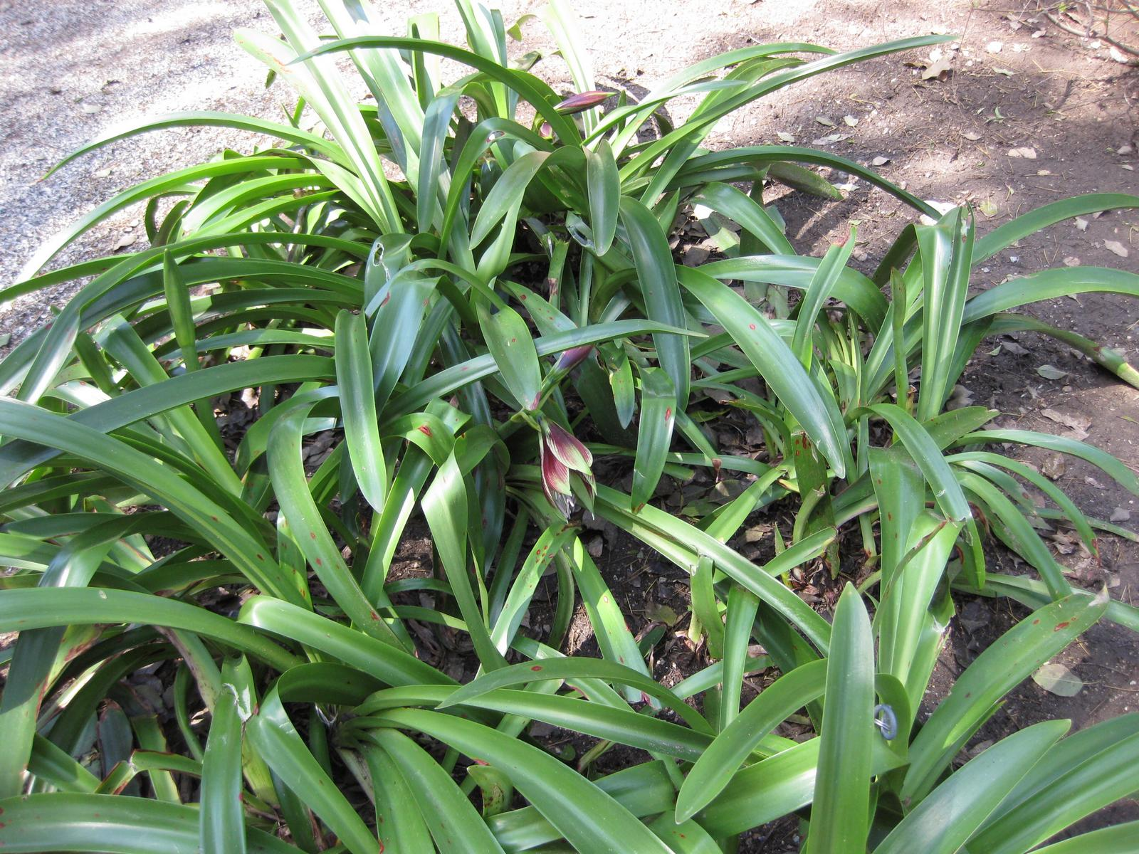 Habitus of Hippeastrum papilio photographed at Huntington Gardens (Los Angeles, California) in March